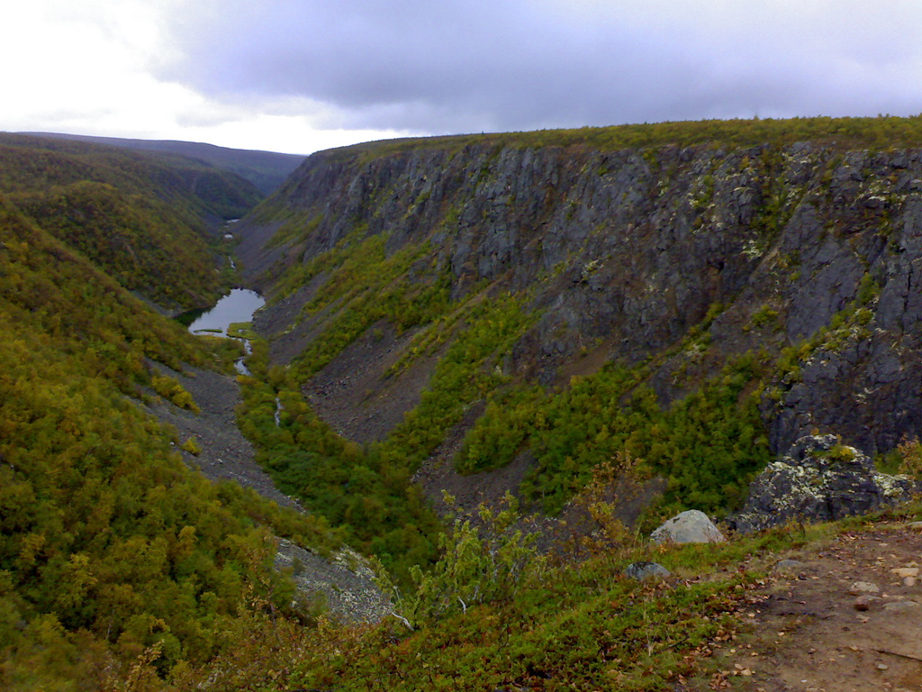 "Kevo Canyon" on Kevo River in Utsjoki, Finland